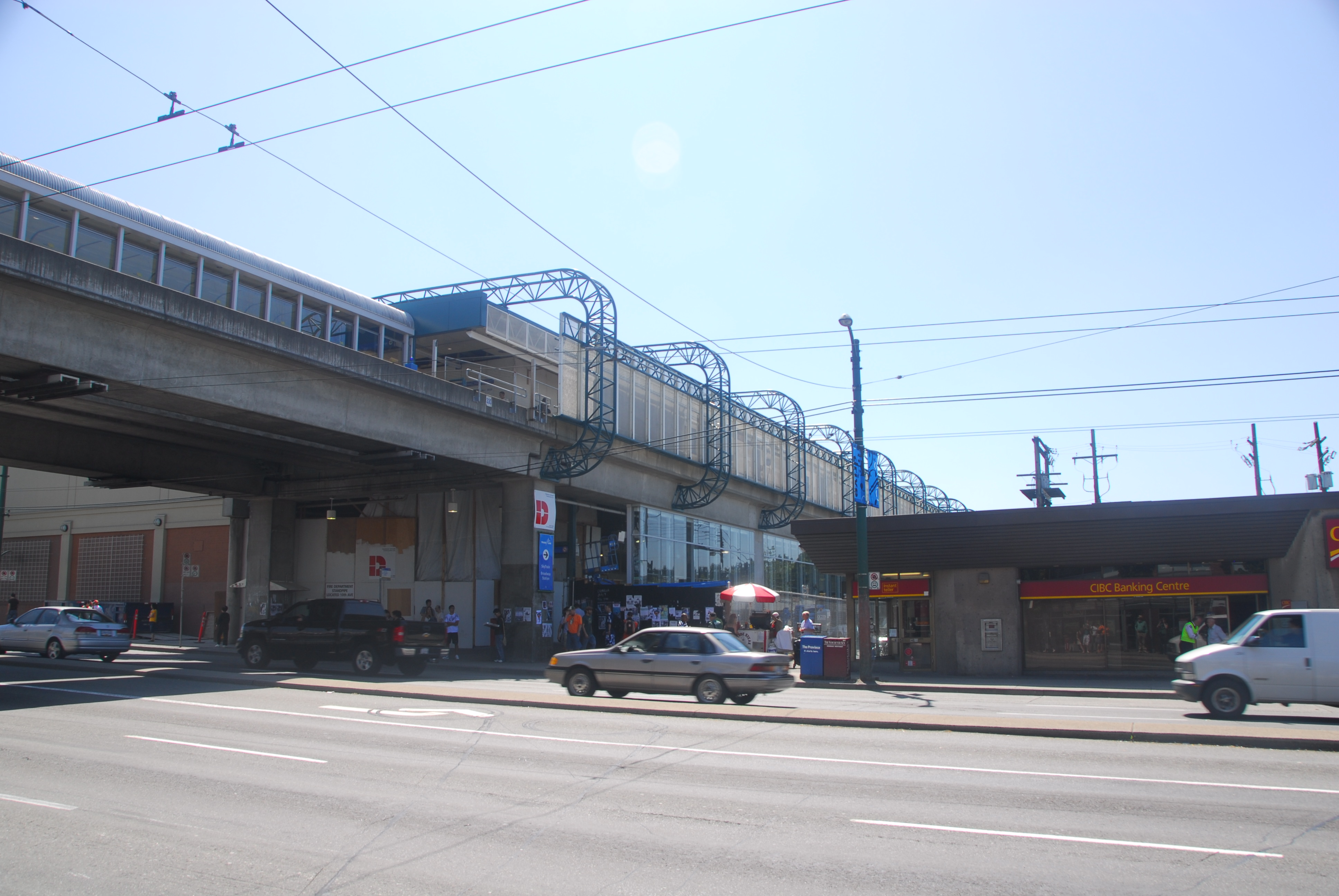 Broadway Station of the Vancouver SkyTrain, Canada, as seen from the B-99 bus stop outside Commercial Drive Station.